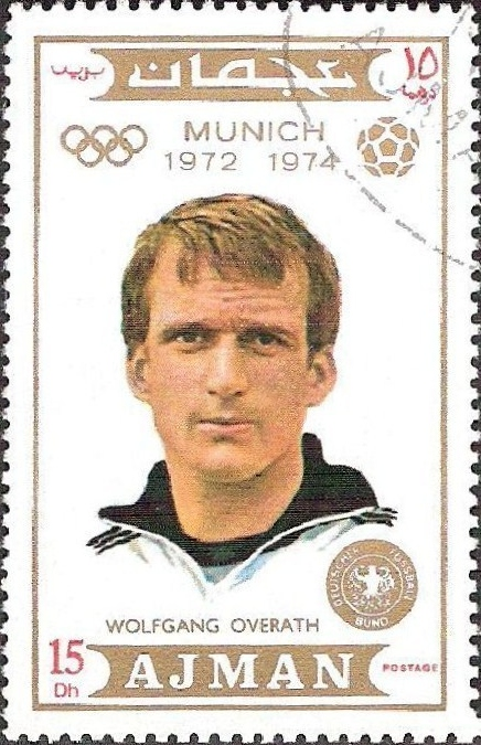 Wolfgang Overath